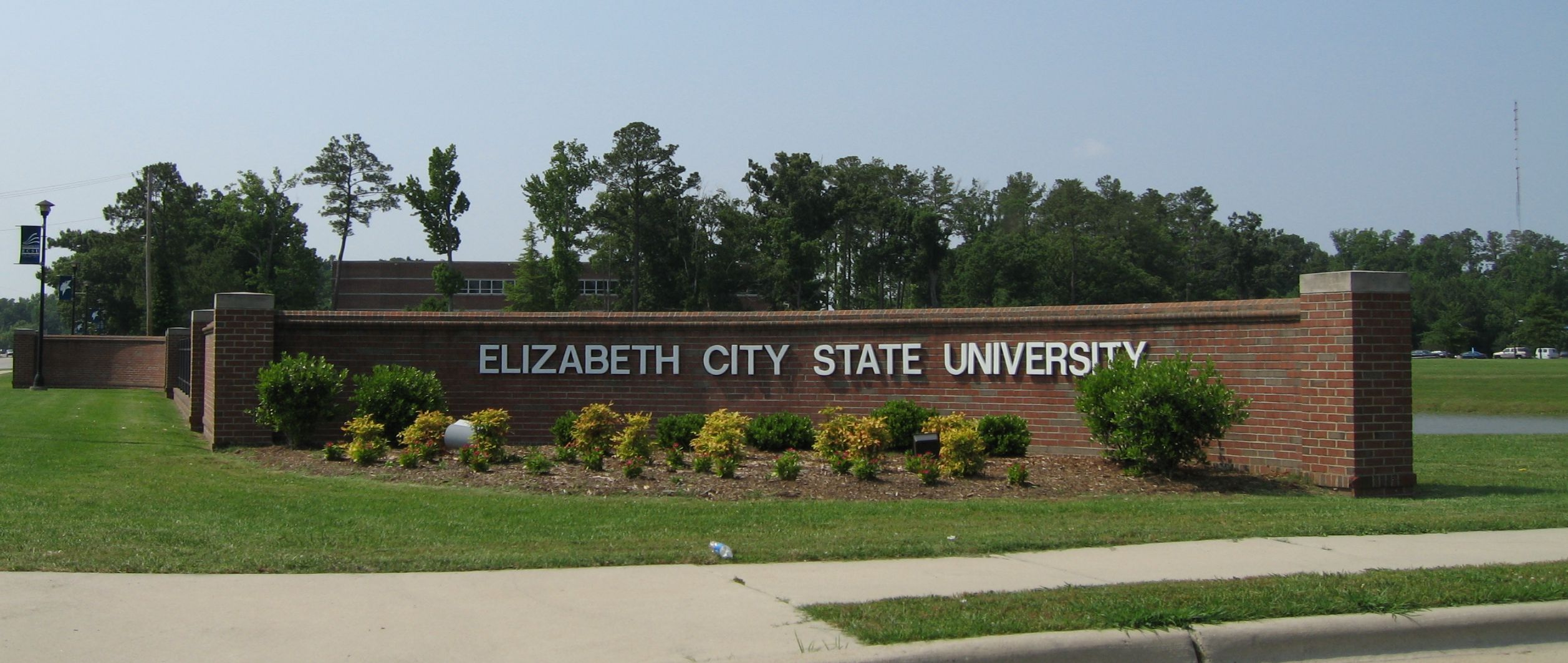 Sign at one of the entrances to the ECSU Campus. Taken by M. Turner, released into the public domain.